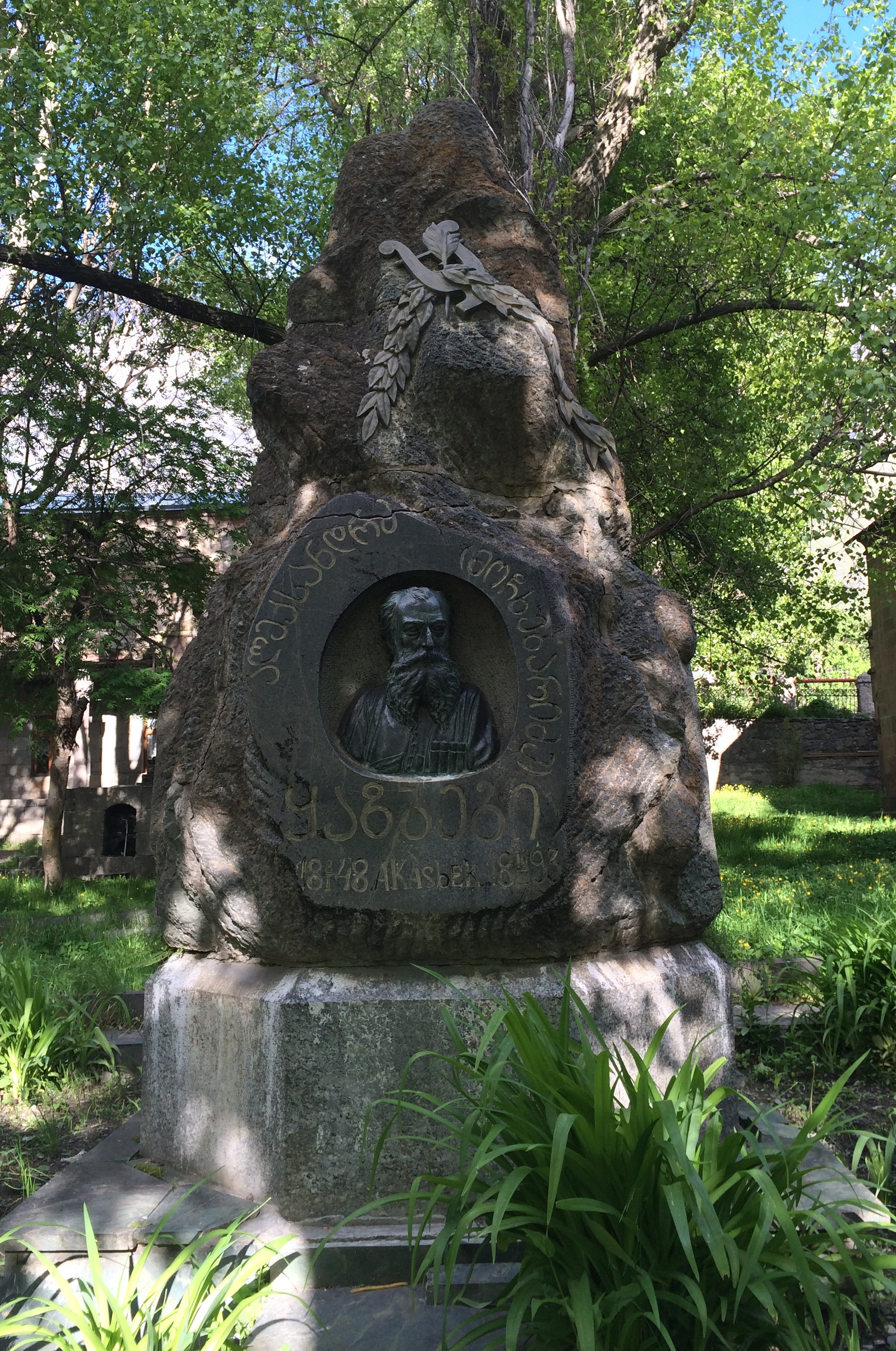 Monument of Alexander Kazbegi